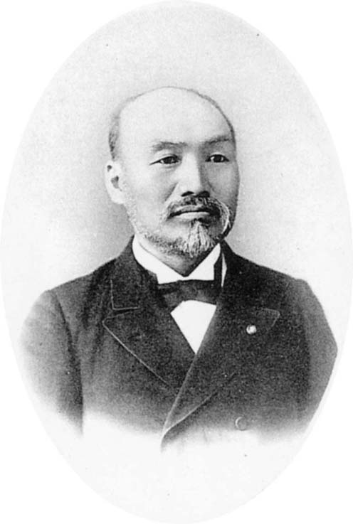 H. Watanabe, Ex-President.